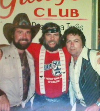 Taken at Gilley's from left to right Johnny Lee,Johnny Paycheck,and Mickey Gilley 3.1.78